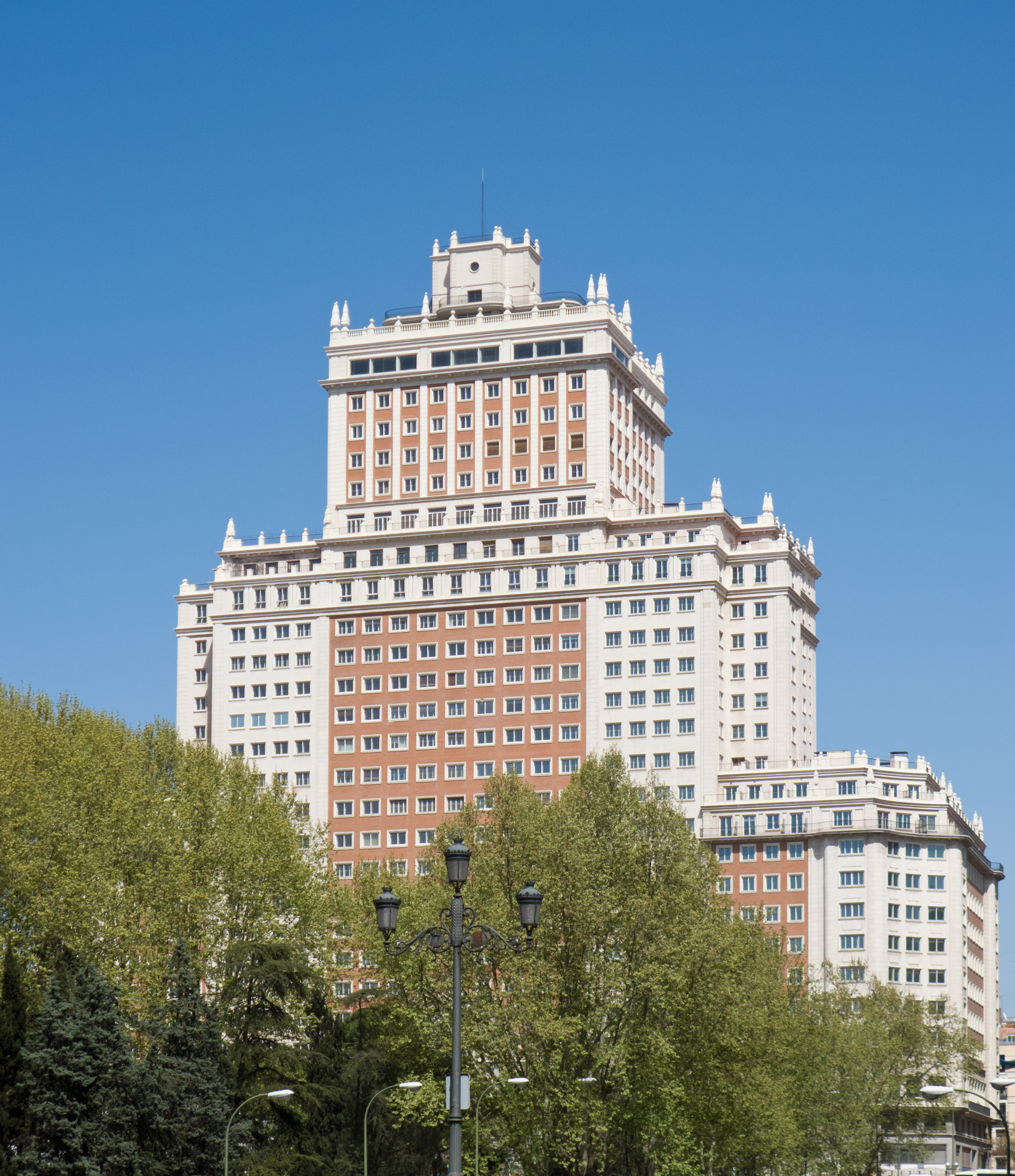 Edificio España, Madrid, Spain.